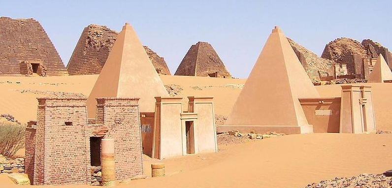 Pyramids N26 and N27.